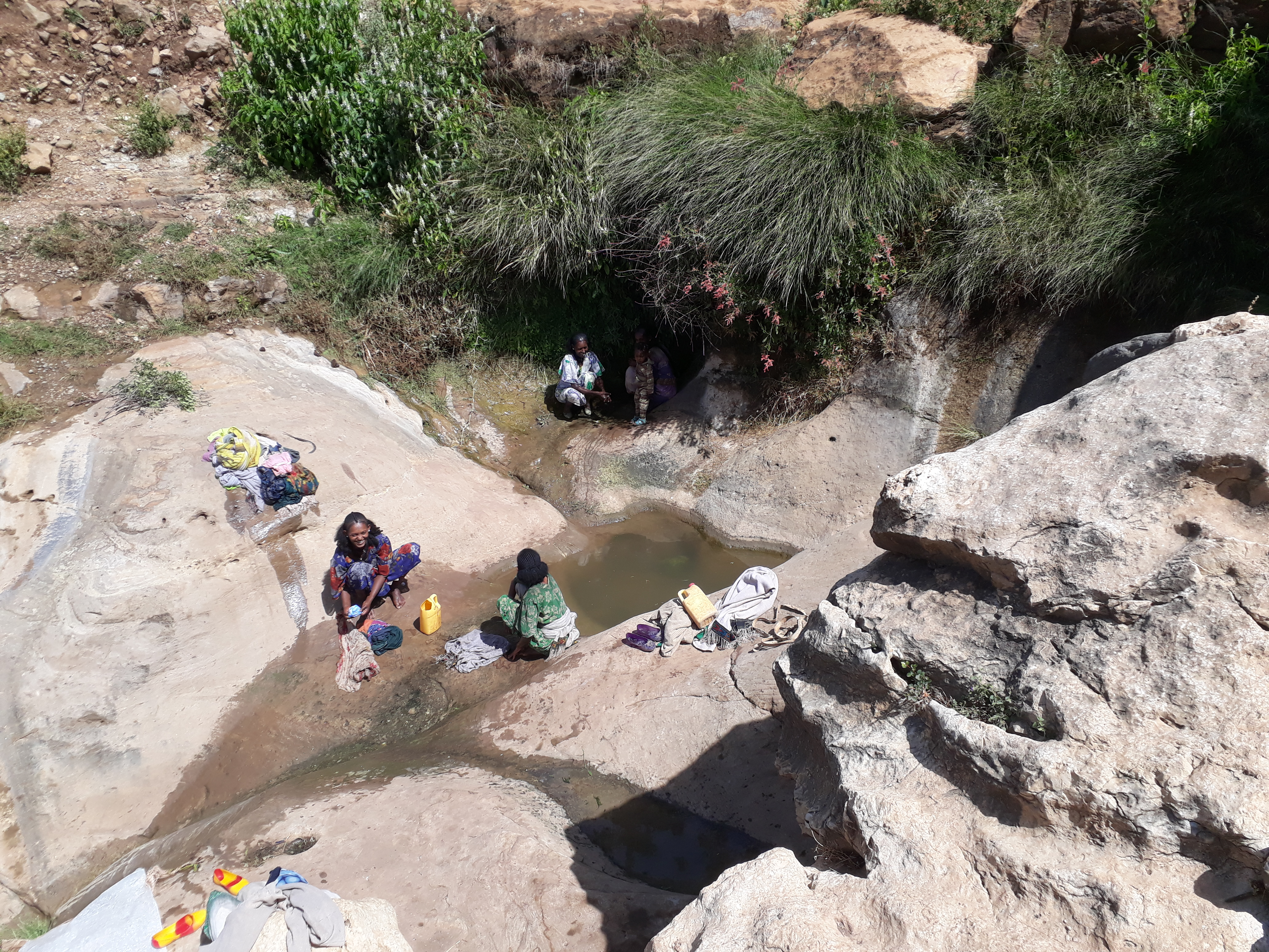 Santarfas washing place